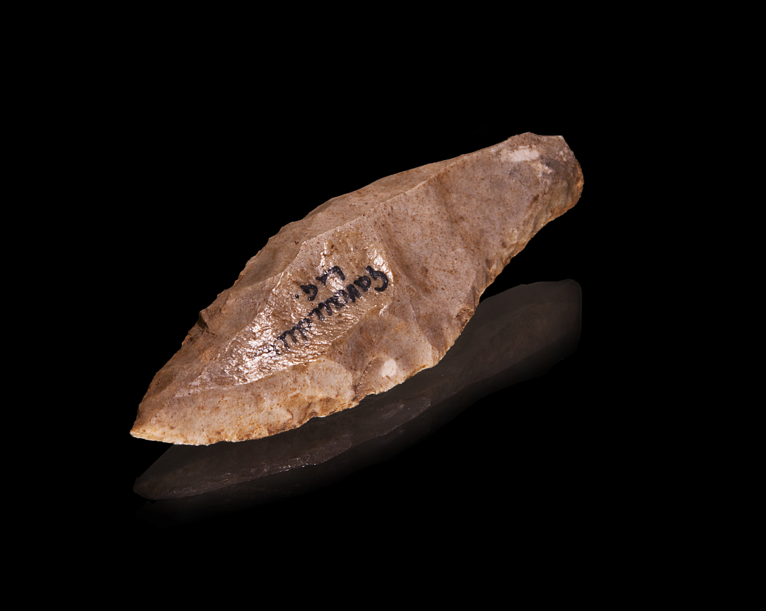 Arrowhead Font-Robert